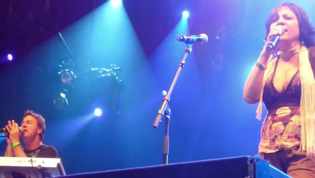 Peter Kingsbery and Anna LaCazio singing "For Experience Sake" (from First Love/Last Rites).